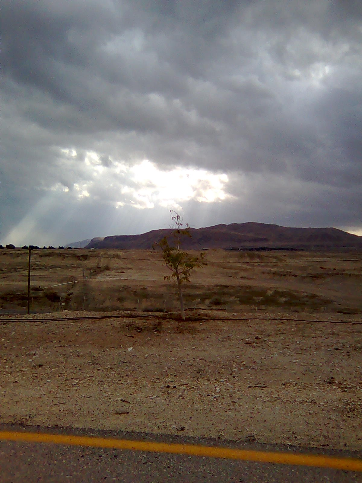 View in the morning, Bet Ha'Arava